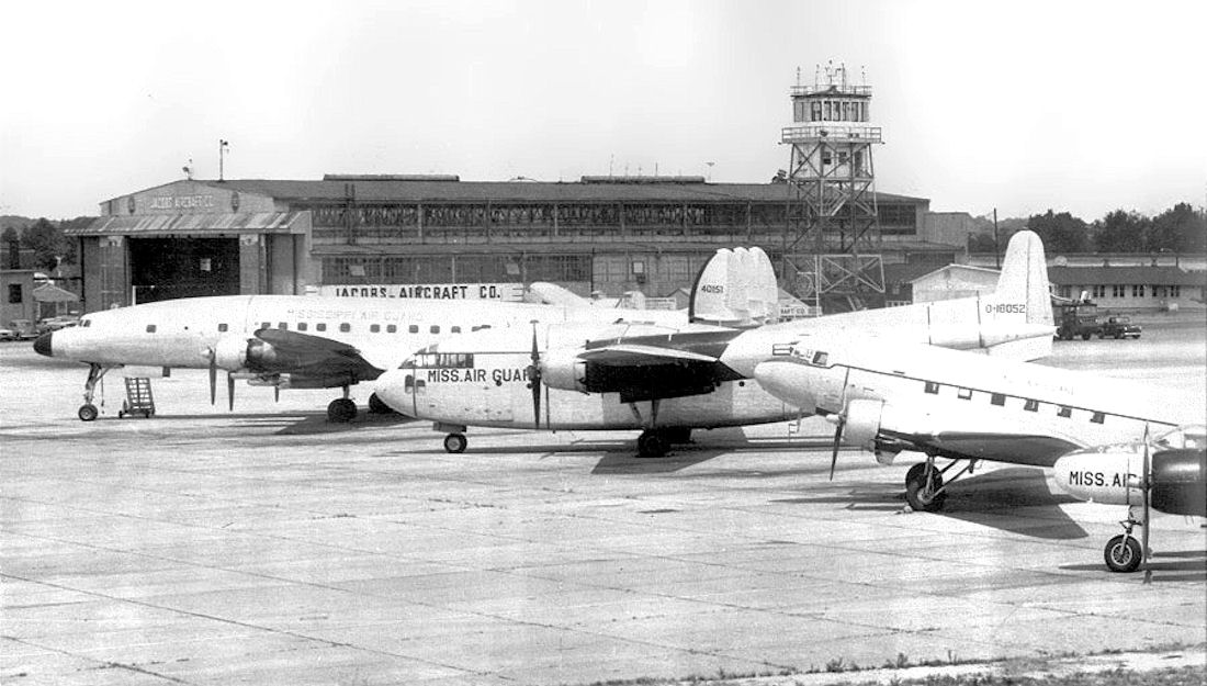 Mississippi Air National Guard 172d Air Transport Squadron C-121 C-119 C-47 and RB-26 at Hawkins Field. Note the World War II Control Tower, hangar, and buildings in the background